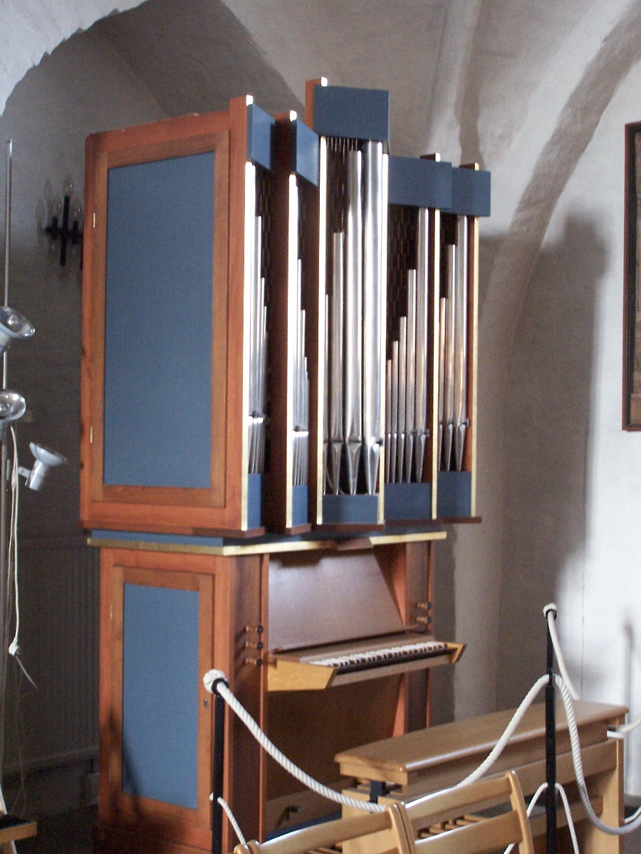 The choir organ in Sankt Laurentii church in Söderköping, Sweden